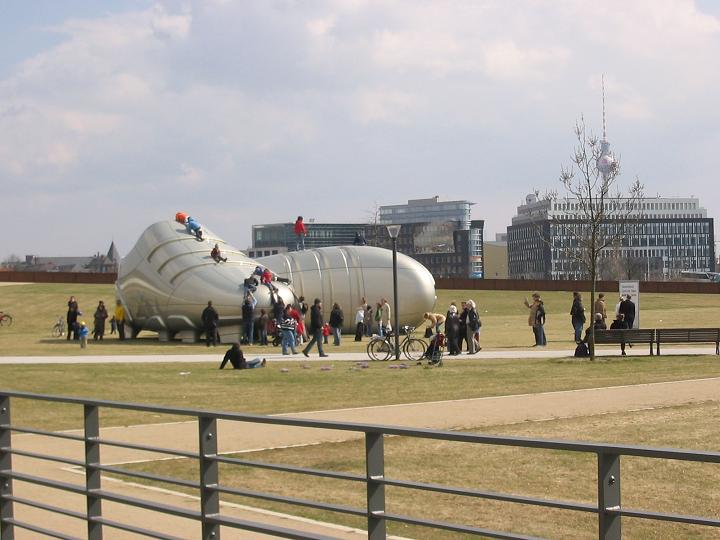 „The modern Football Shoe“, first sculpture (from six) of the Berliner Walk of Ideas on the occasion of 2006 FIFA World Cup Germany. Unveiling: 10 March 2006 in Spreebogenpark (park nearby river Spree and Bundeskanzleramt (Berlin). It is to commemorate to a invention by Adi Daßler)